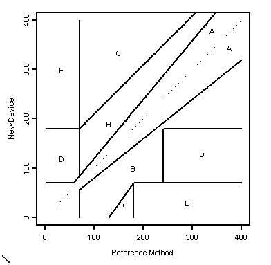 The Clarke Error Grid for evaluating glucose meters.